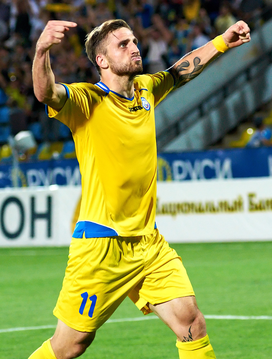 Czech footballer Jan Holenda (FC Rostov). August 26, 2012, in a match between the clubs Rostov and Alania within the Russian Football Championship 2012/2013 season.